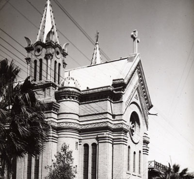 The Latin Church of Saint Theresa in Baghdad